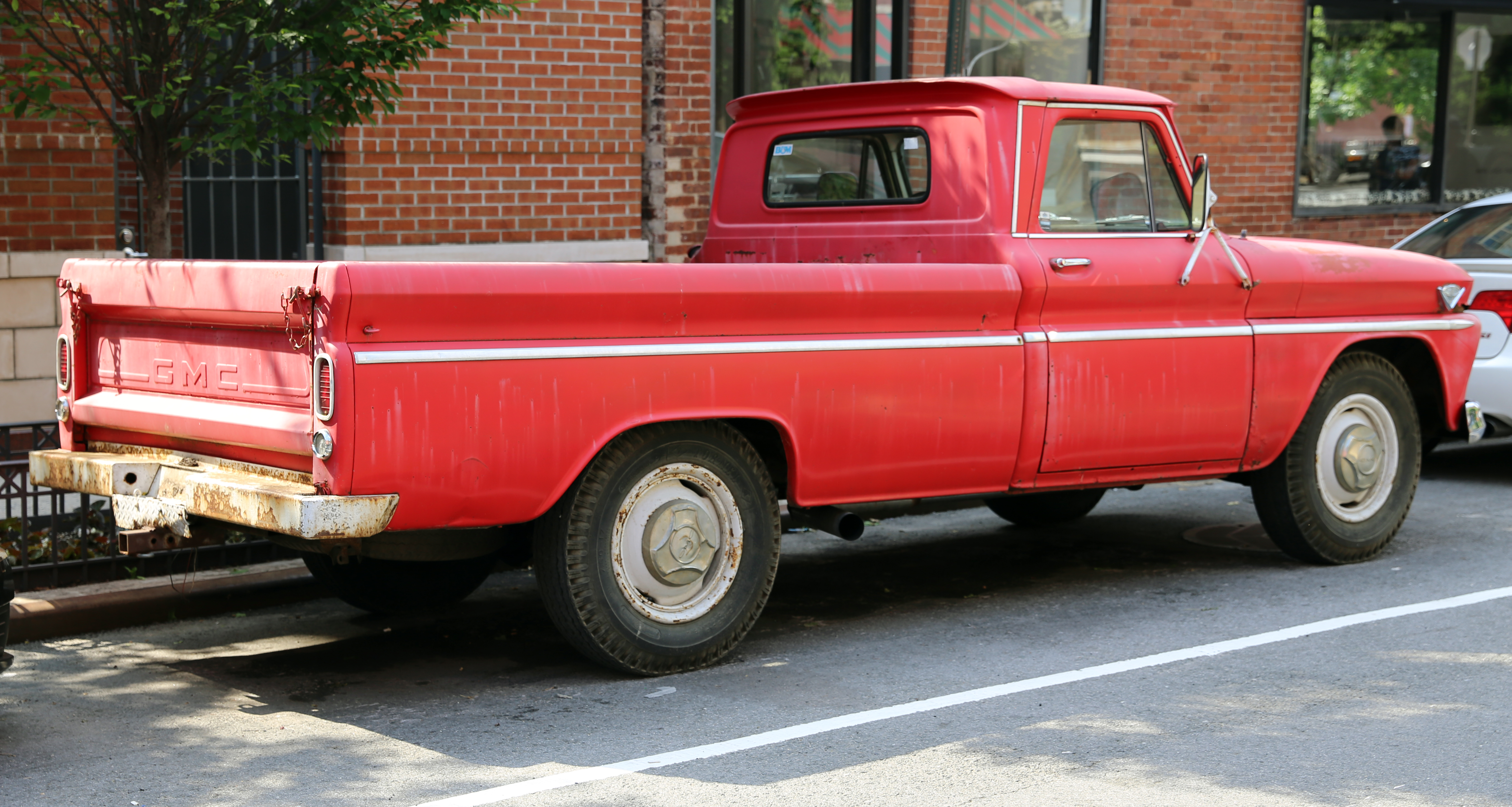 1966 GMC truck in a nice faded red tone